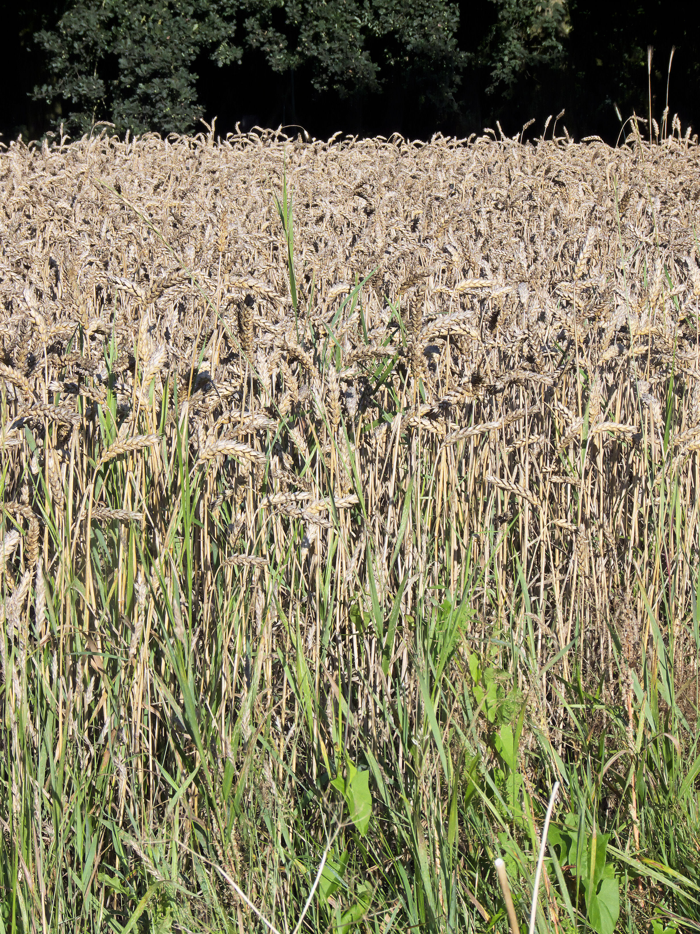 Triticum aestivum just before harvesting